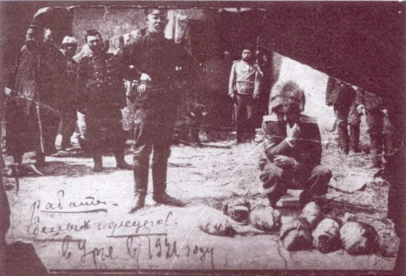 White Russian soldiers beside the chopped head